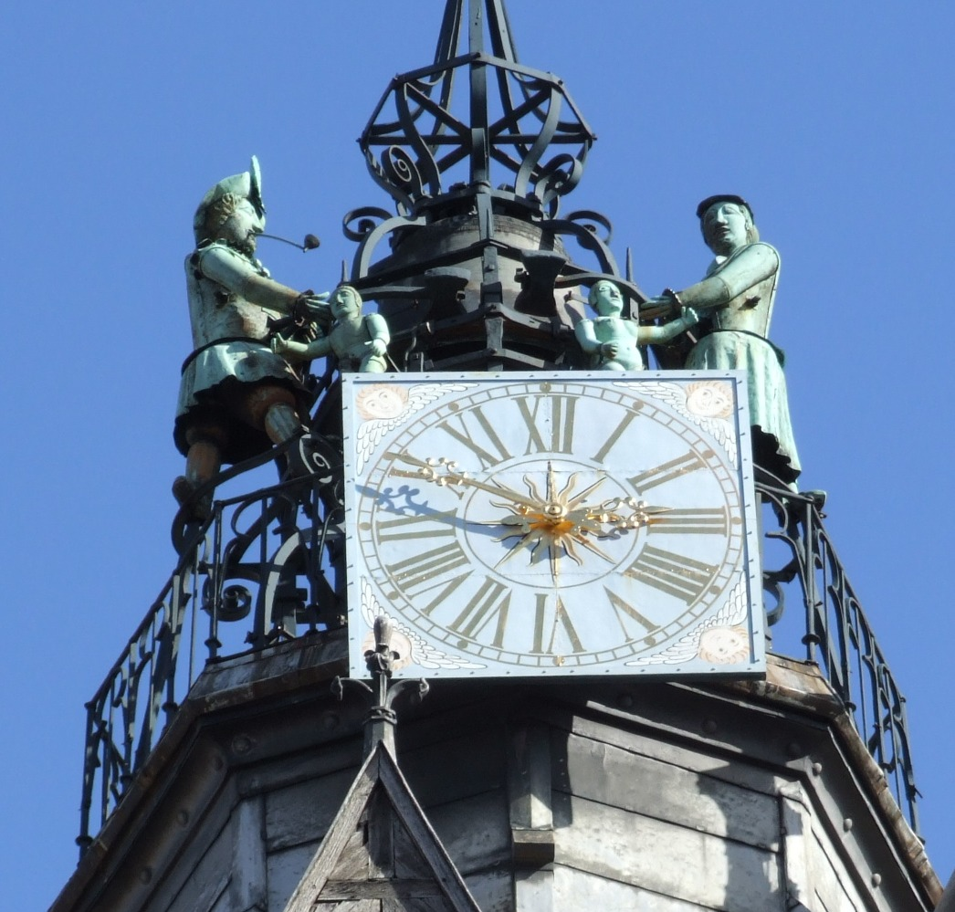 Notre-Dame church, Dijon, Burgundy, FRANCE